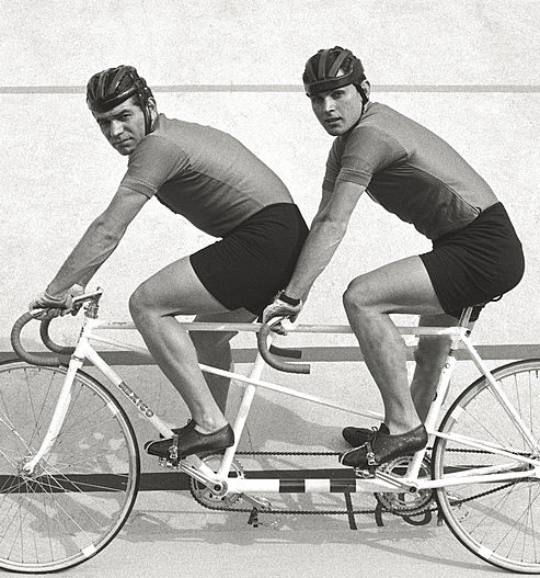 The Italian tandem team at the Olympic Games: Luigi Borghetti, on the left, and Walter Gorini, on the right. The two Italian cyclists shall finish fourth and won't win any medal. Mexico City (Mexico), October 1968.